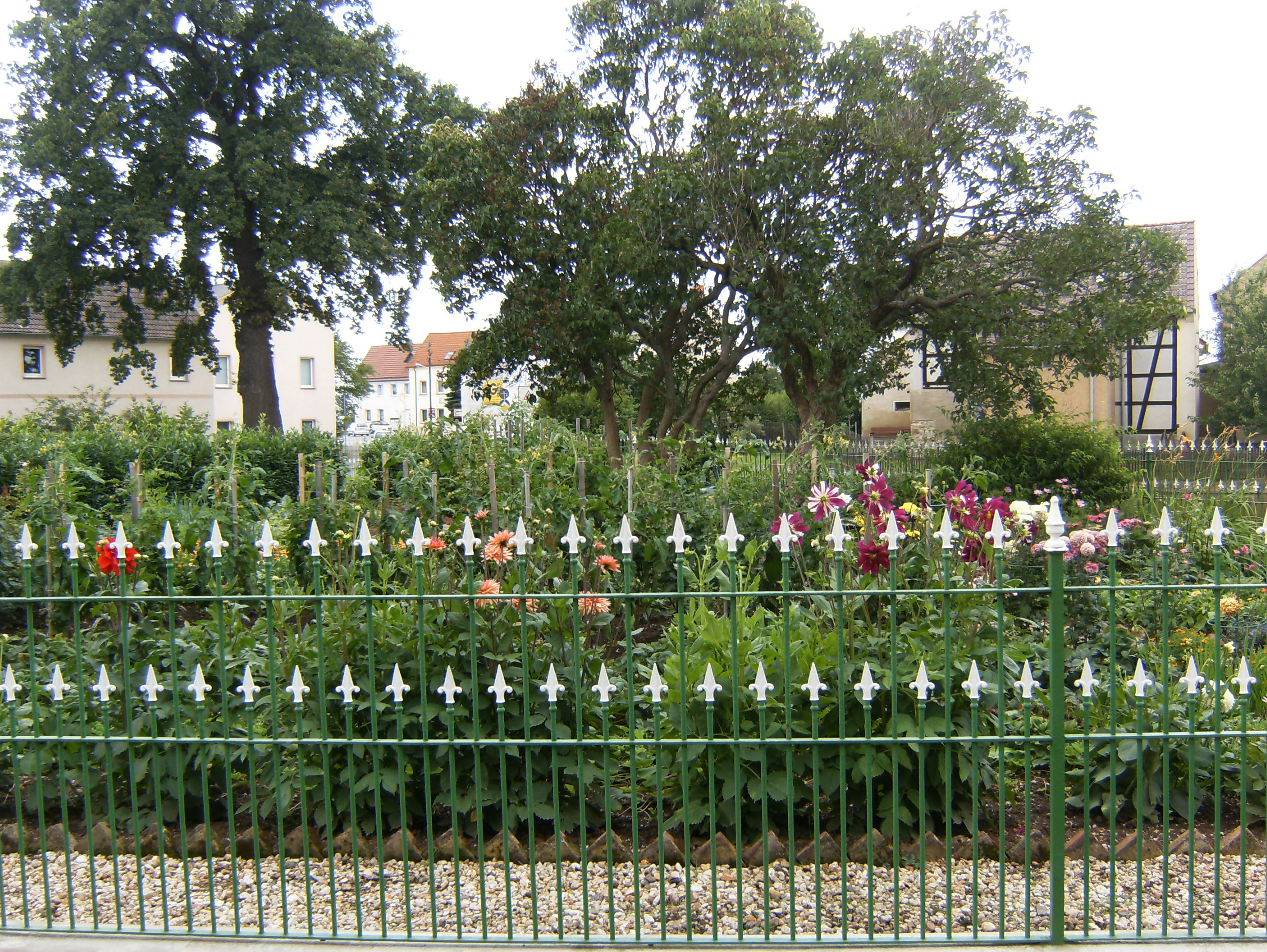 Gera Trebnitz, village view with rural garden.